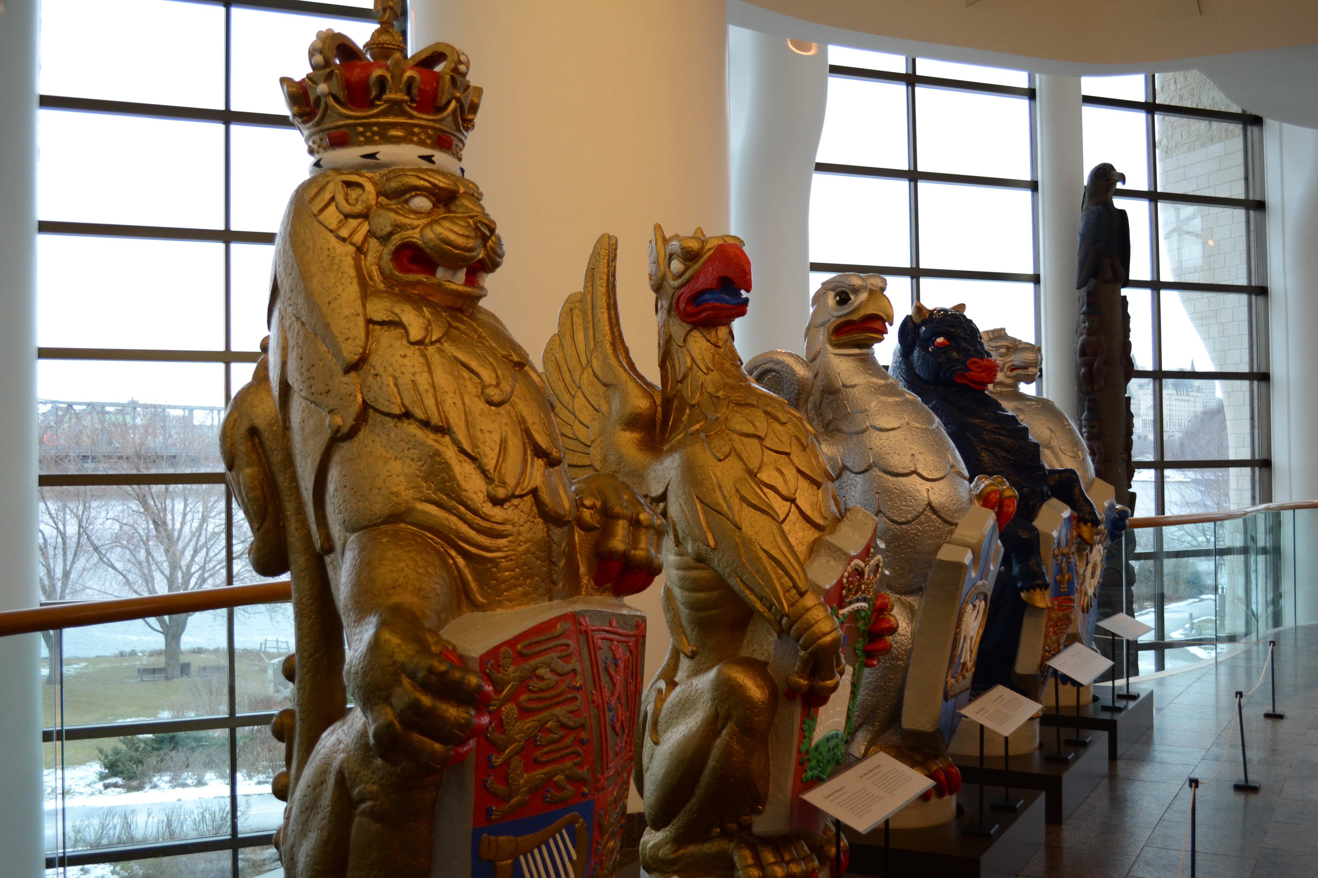 Mythological figures (griffin etc) outside the temporary 'A Queen and Her Country' exhibit in the Canadian Museum of Civilization. This special exhibit was set up to commemorate Her Majesty’s Diamond Jubilee. The exhibition recalls the Queen’s 60 years as Canada’s Head of State, her 23 official visits to Canada and her personal connection to major events in Canada's recent history. (Ottawa, Canada, Dec. 2012)